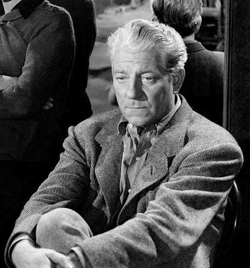 The French actor Jean Gabin acting in the film The Walls of Malapaga (1949).